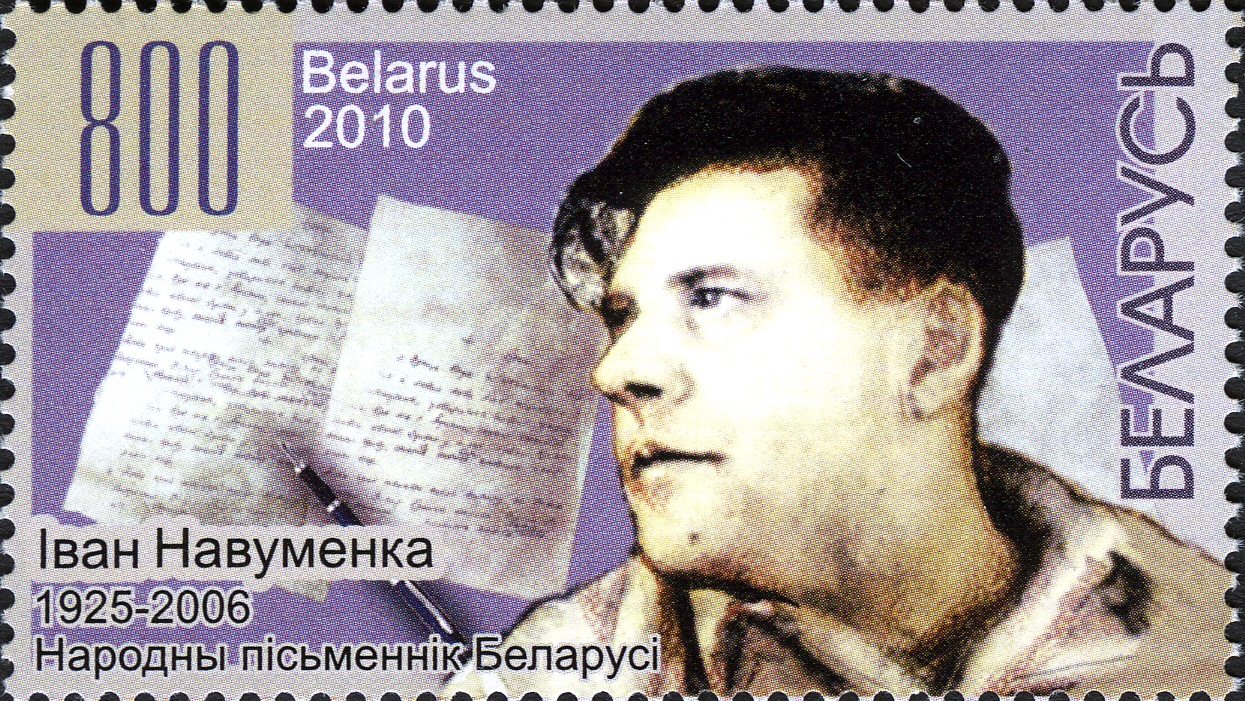 Stamp of Belarus